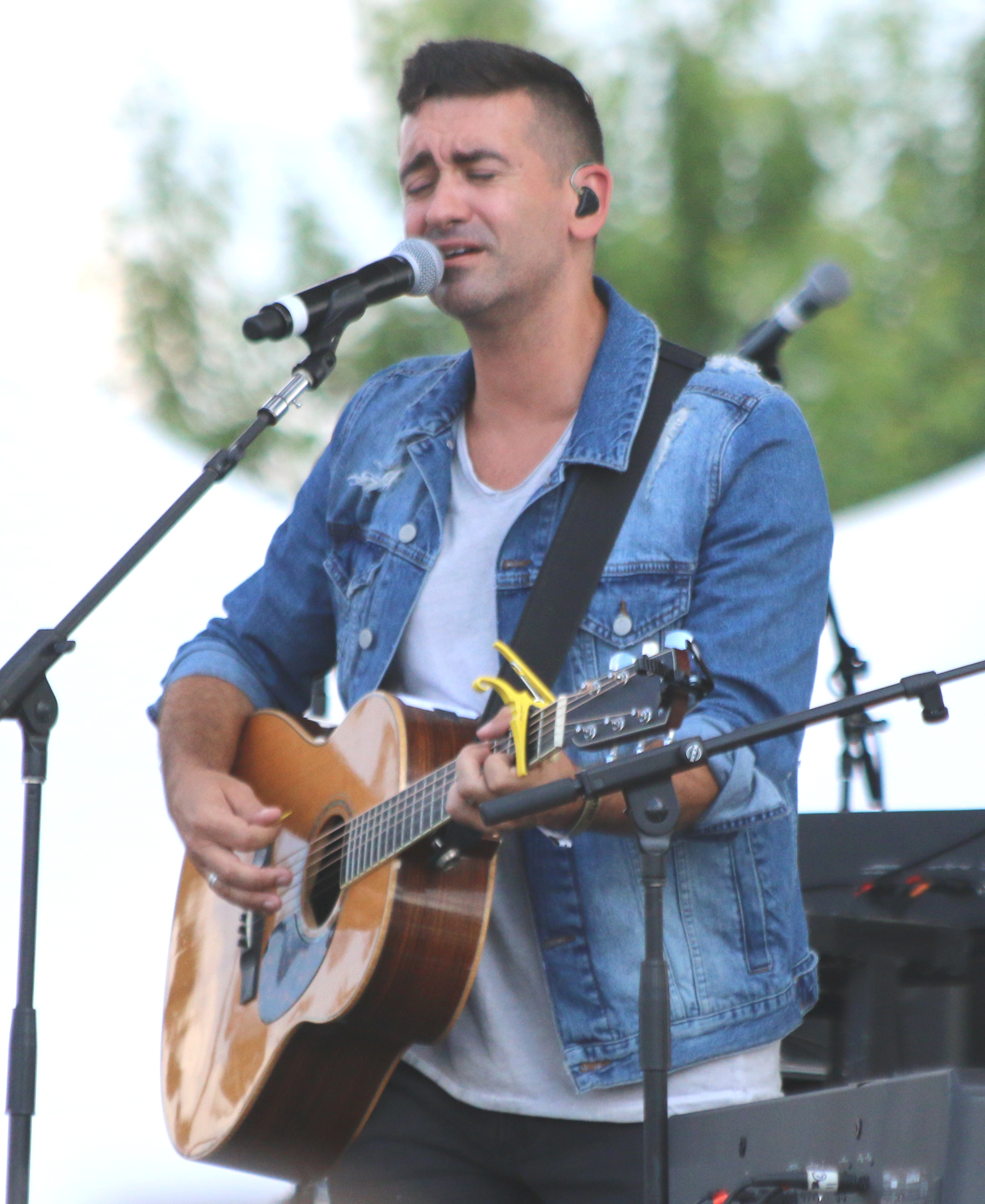 Aaron Shust at Lifest